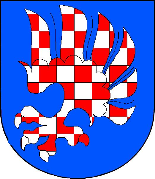 Municipal coat of arms of Náměšť na Hané market town, ˇOlomouc District, Czech Republic.